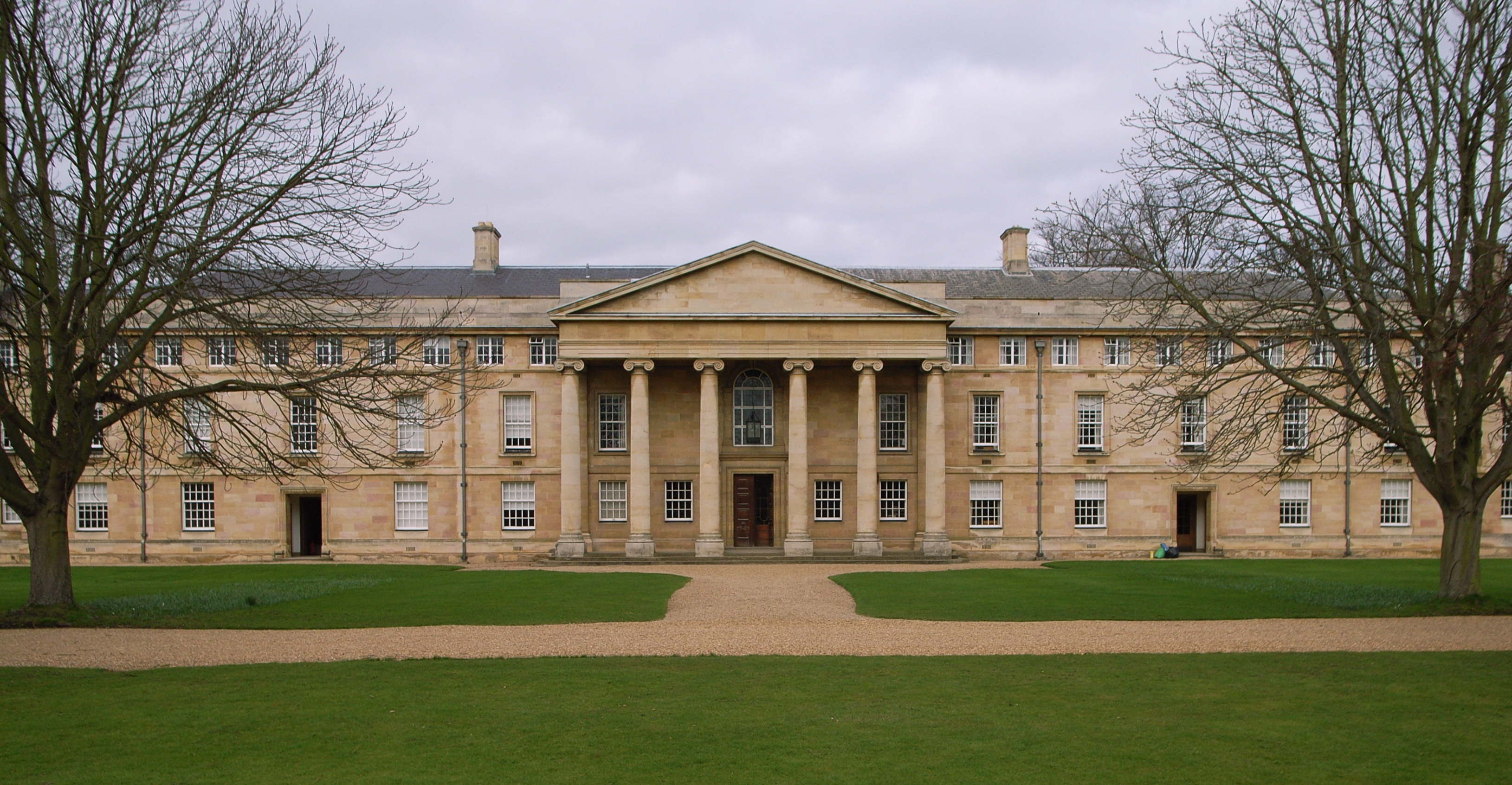 A picture of the Downing College, Cambridge chapel.